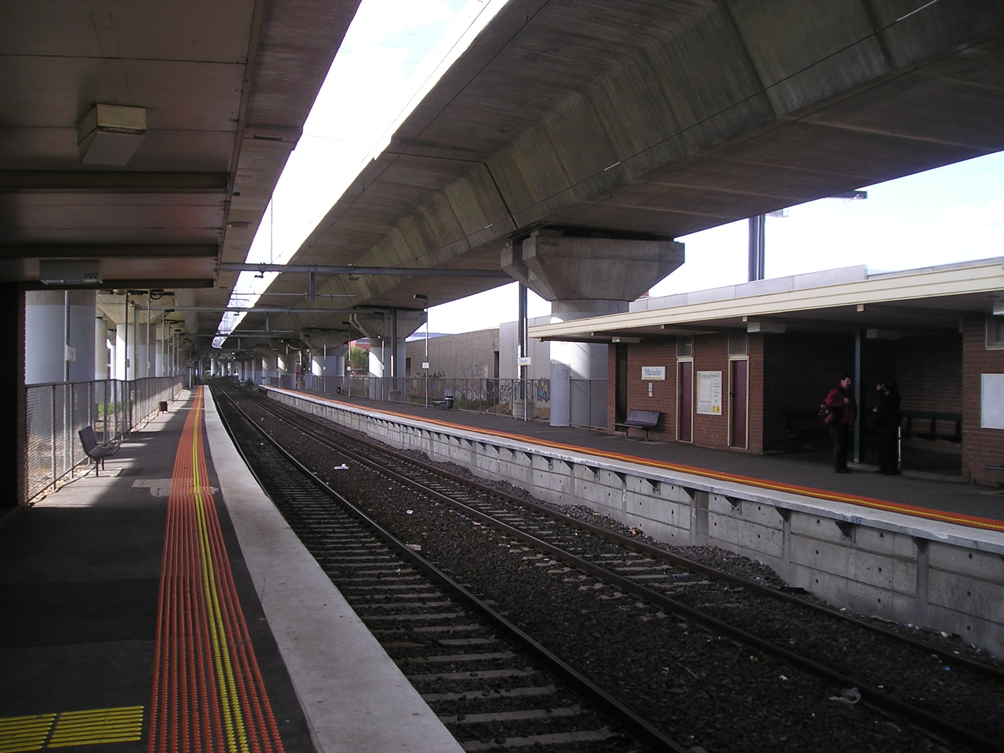 Macaulay railway station in North Melbourne.